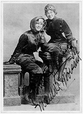 Harriet Quimby and Matilde Moisant